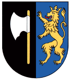 Coat of arms of Bollenbach in Haslach im Kinzigtal